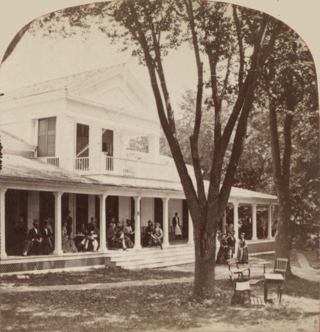 Moon's Lake House, Saratoga Springs, NY, 1896 Other information Original is stereoscopic view. I cropped this image to one half the original and edited out some remaining red borders.